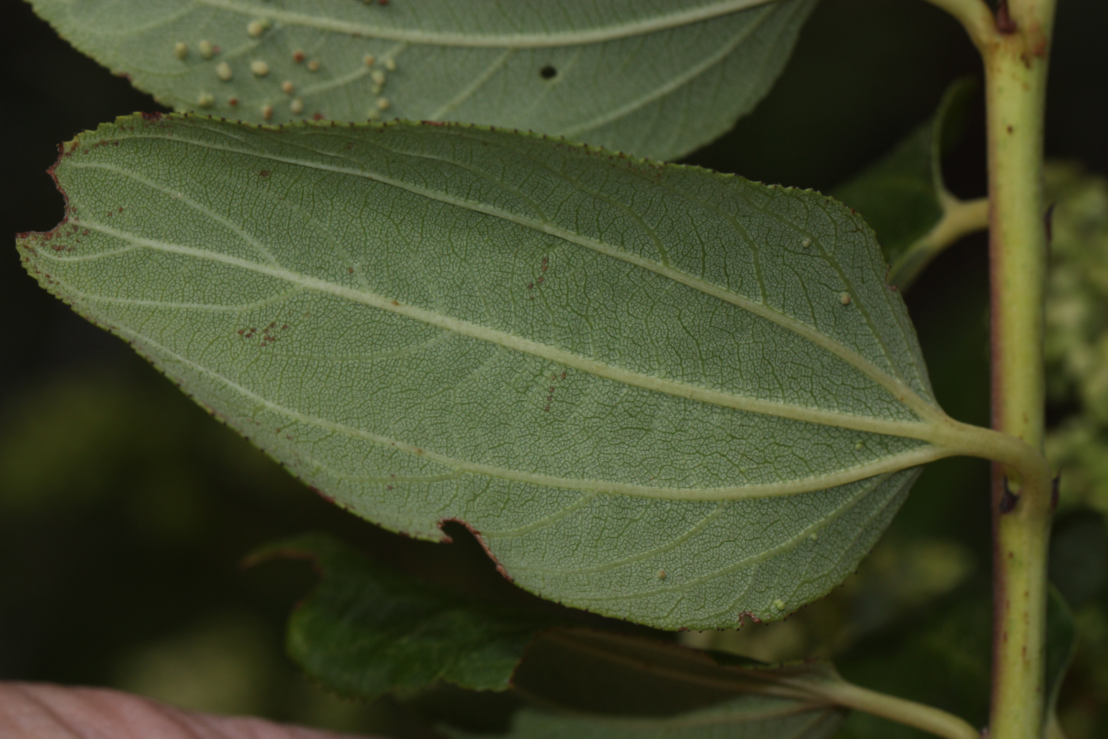 Mountain Balm, Sticky-laurel, Grease-wood Identification by: Hitchcock and Cronquist, p. 291 Viewpoint location: Tronsen Ridge Trail #1204, Tronsen Ridge Viewpoint elevation: 1133 meter (3718 ft) Location source: Garmin GPSmap 60CSx Location Datum: WGS84